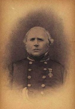 Bertel Lavstsen Nørgaard (1805-1862), Danish farmer and politician, MP